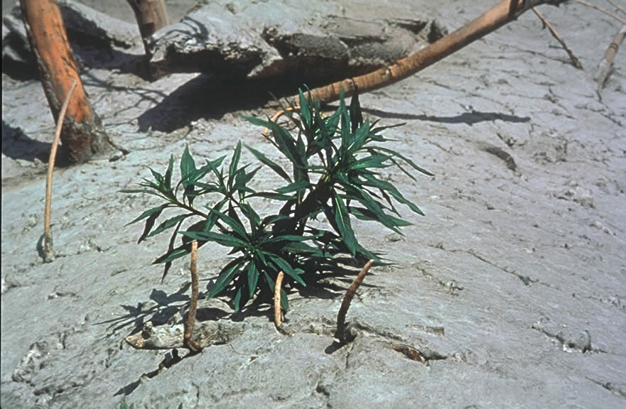 Mount St. Helens, recovery after the volcanic eruption, fireweed (Epilobium angustifolium) sapling breaking through ash layers